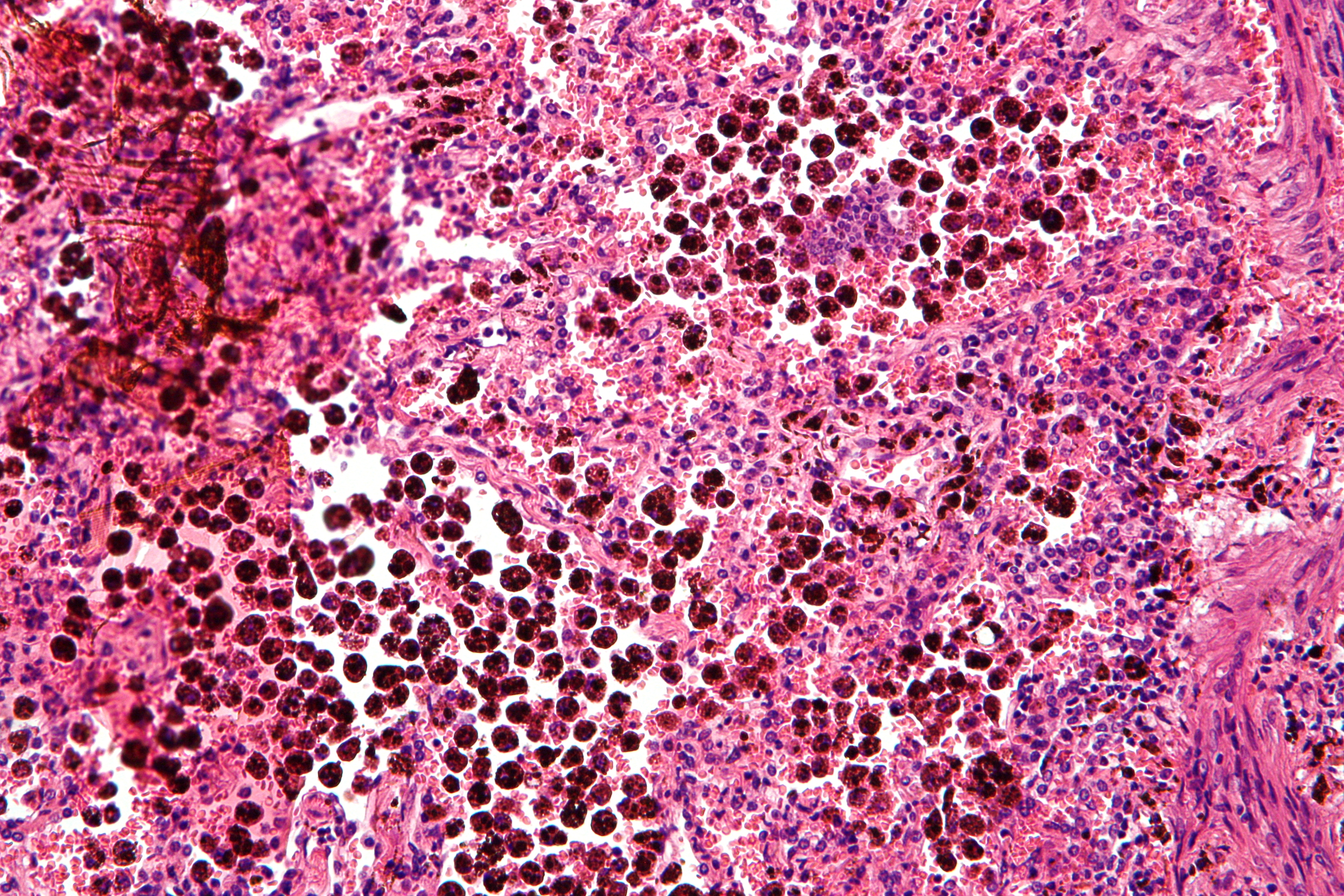 High magnification micrograph of a (chronic) pulmonary haemorrhage, also pulmonary hemorrhage, lung bleed, bleeding in the lung. H&E stain. Features: Abundant hemosiderin-laden alveolar macrophages. Alveolar red blood cells. See also Low mag. Intermed. mag. Very high mag.